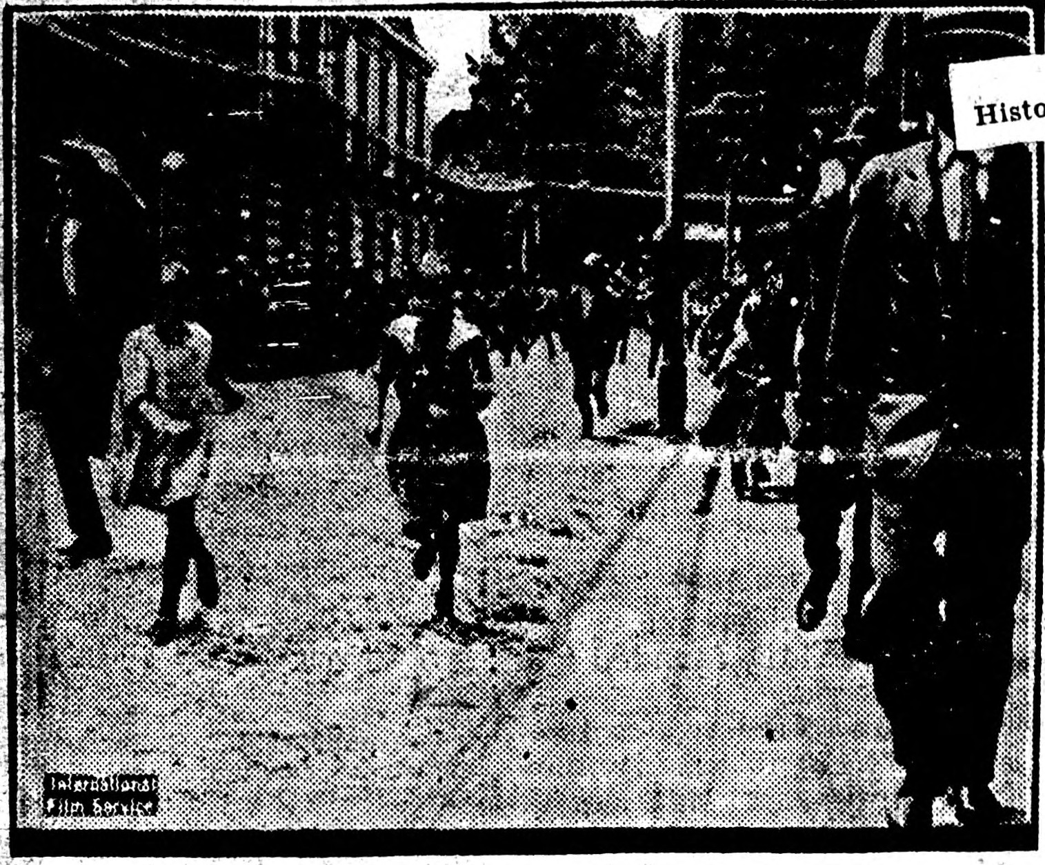 Caption: Citizens of San Jose, Costa Rica, fleeing before the troops of President Tinoco, who are clearing the streets with bayonet and bullet. Not much has been learned of the Costa Rican revolution because of the strict censorship maintained by Tinoco's government.